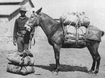 Buffalo Soldier